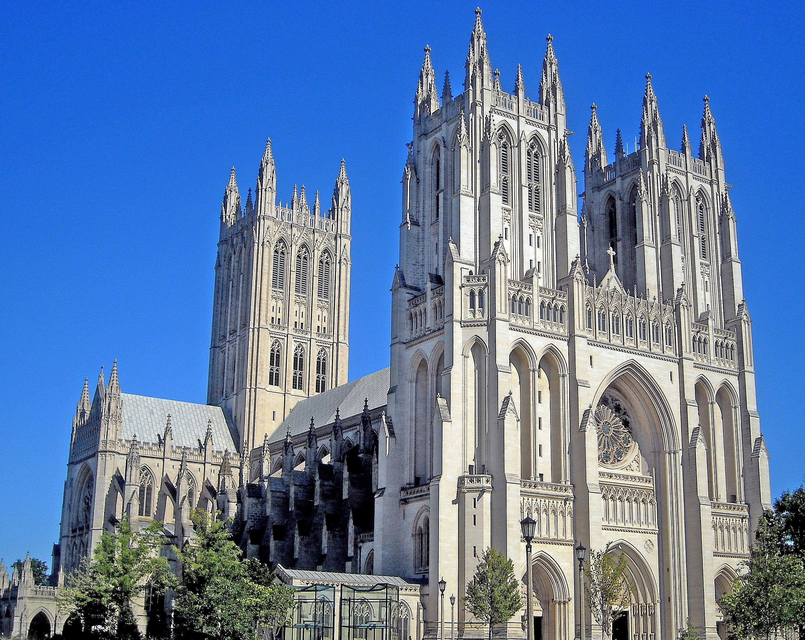 The Washington National Cathedral, also known as the Cathedral Church of Saint Peter and Saint Paul, located at 3101 Wisconsin Avenue, NW, in the Massachusetts Heights neighborhood of Washington, D.C.